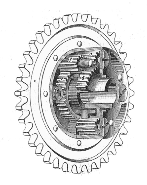 Straight tooth differential gear (Army Service Corps Training, Mechanical Transport, 1911).jpg